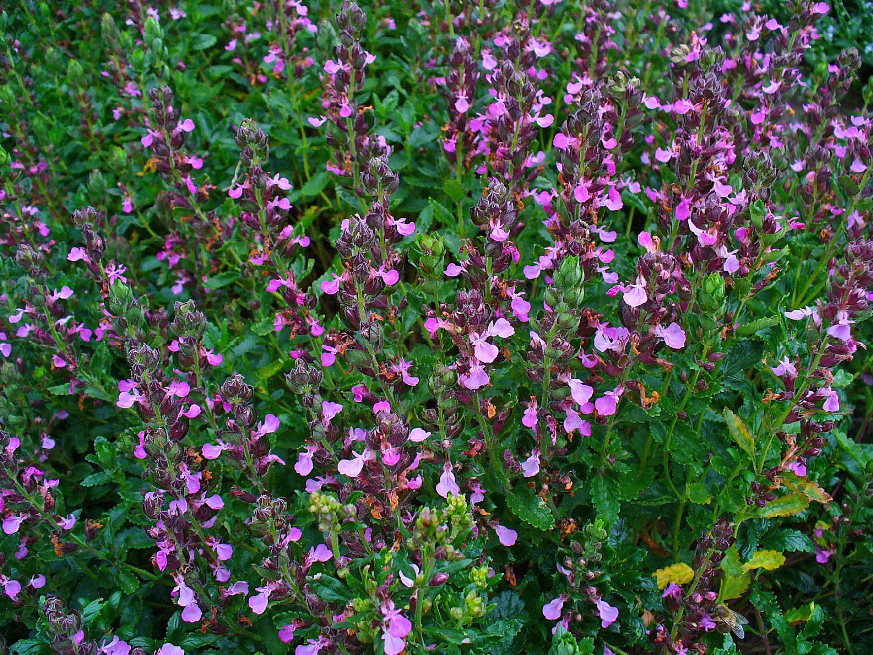 Teucrium chamaedrys, Lamiaceae, Wall Germander, habitus.